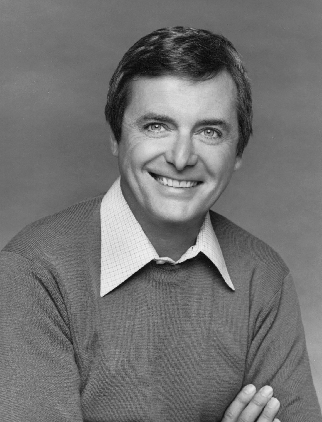 Photo of William Daniels from The Nancy Walker Show.